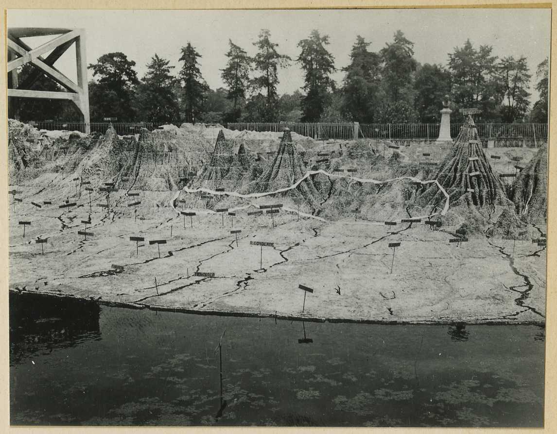 Onchocerciasis, geographic & topographic distribution, Guatemala. WW2, model, map